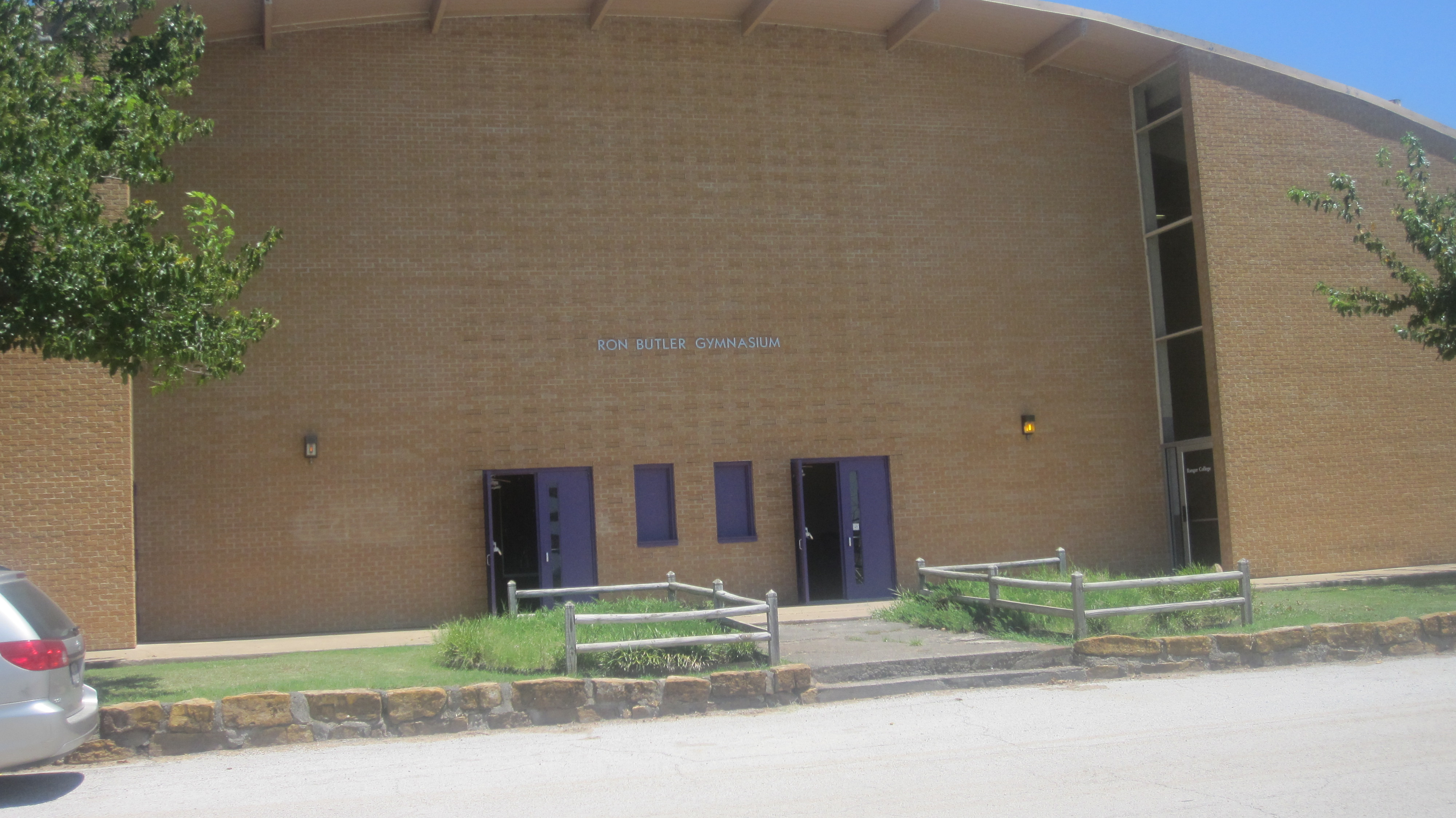 I took photo with Canon camera in Ranger, TX.